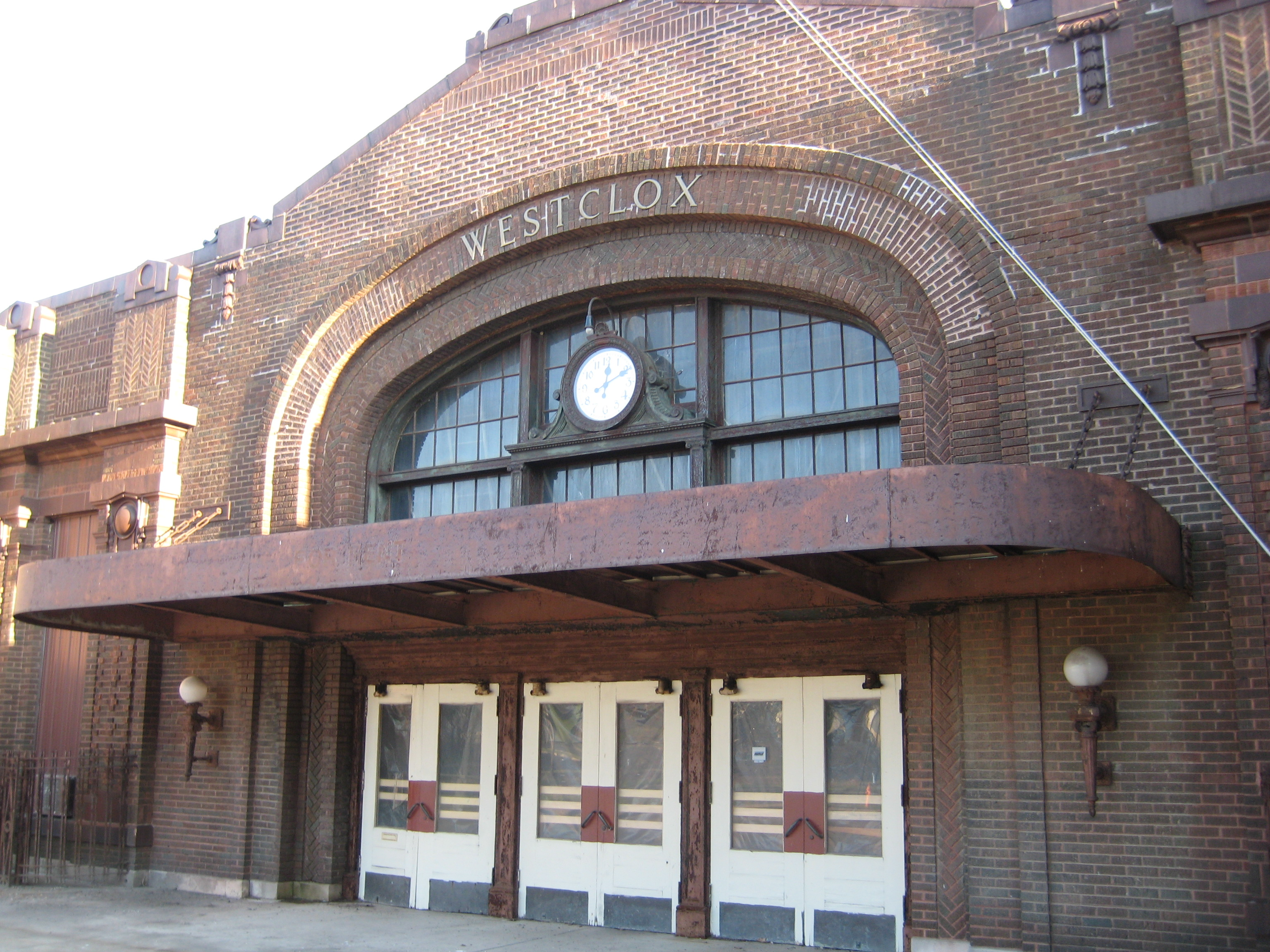 The condemned Westclox building